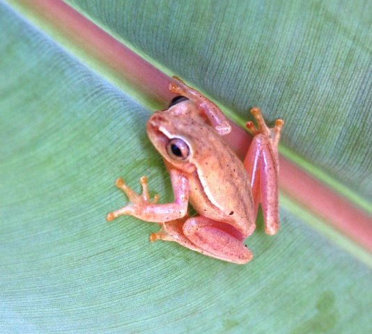 Dendropsophus microcephalus